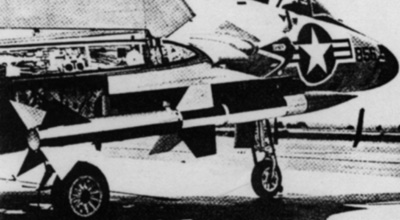 SPAROAIR II sounding rocket mounted on Douglas F4D Skyray launch aircraft.